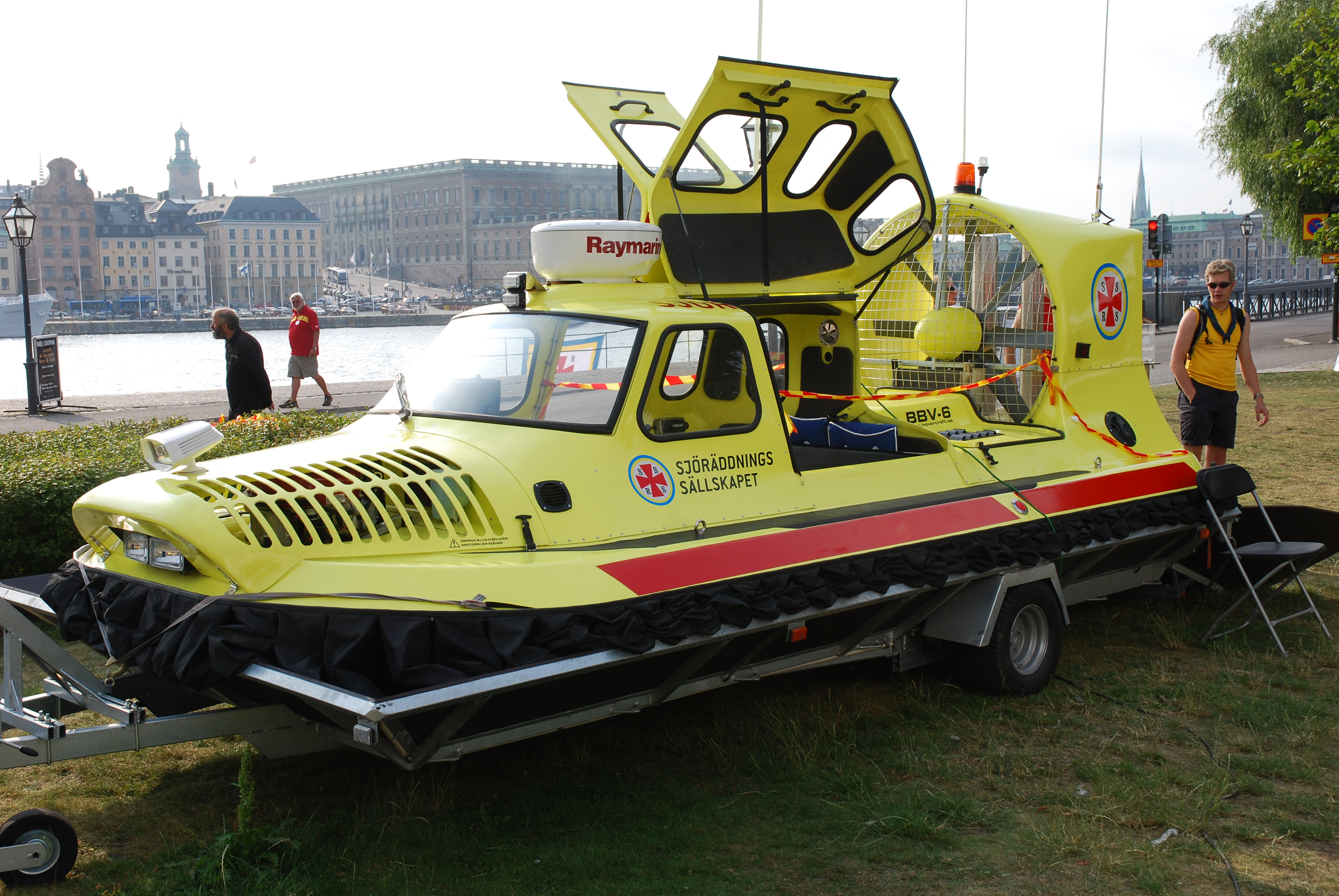 Hovercraft of the Swedish Sea Rescue Society. The hovercraft is used wintertime for rescuing long distance skaters and anglers on the frozen big lakes of Mid-Sweden and of the archipelagos in the Baltic, primarally around Stocholm. This vessel is on delivery to the rescue station at Vadstena at Lake Vättern, the second biggest lake in Sweden